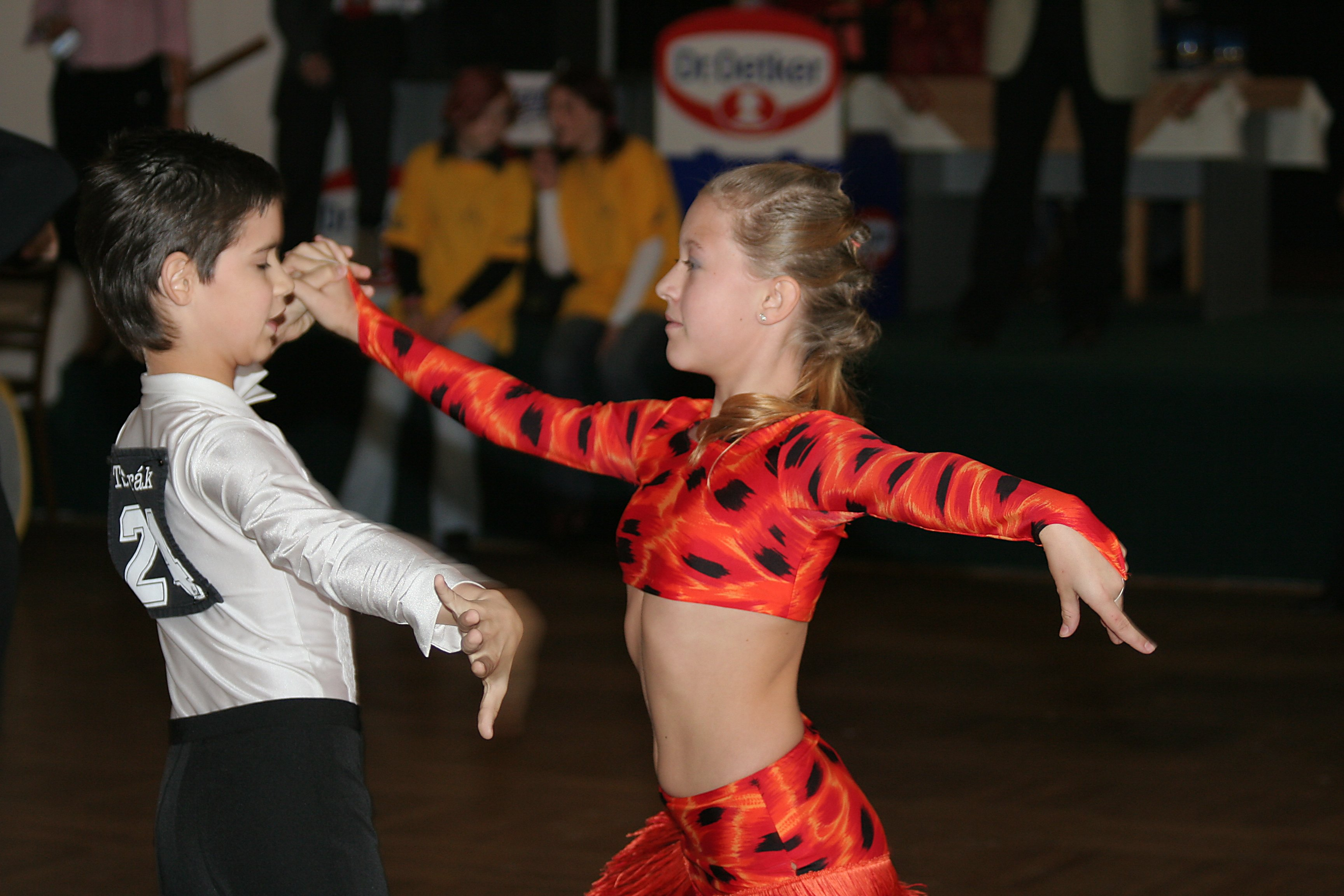 photo: che